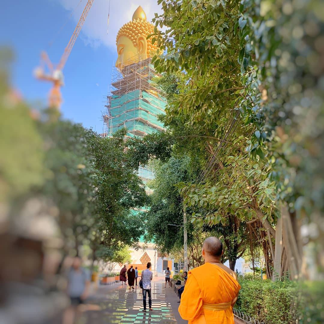 Image built at Wat Paknam Bhasicharoen, Bangkok, Thailand.